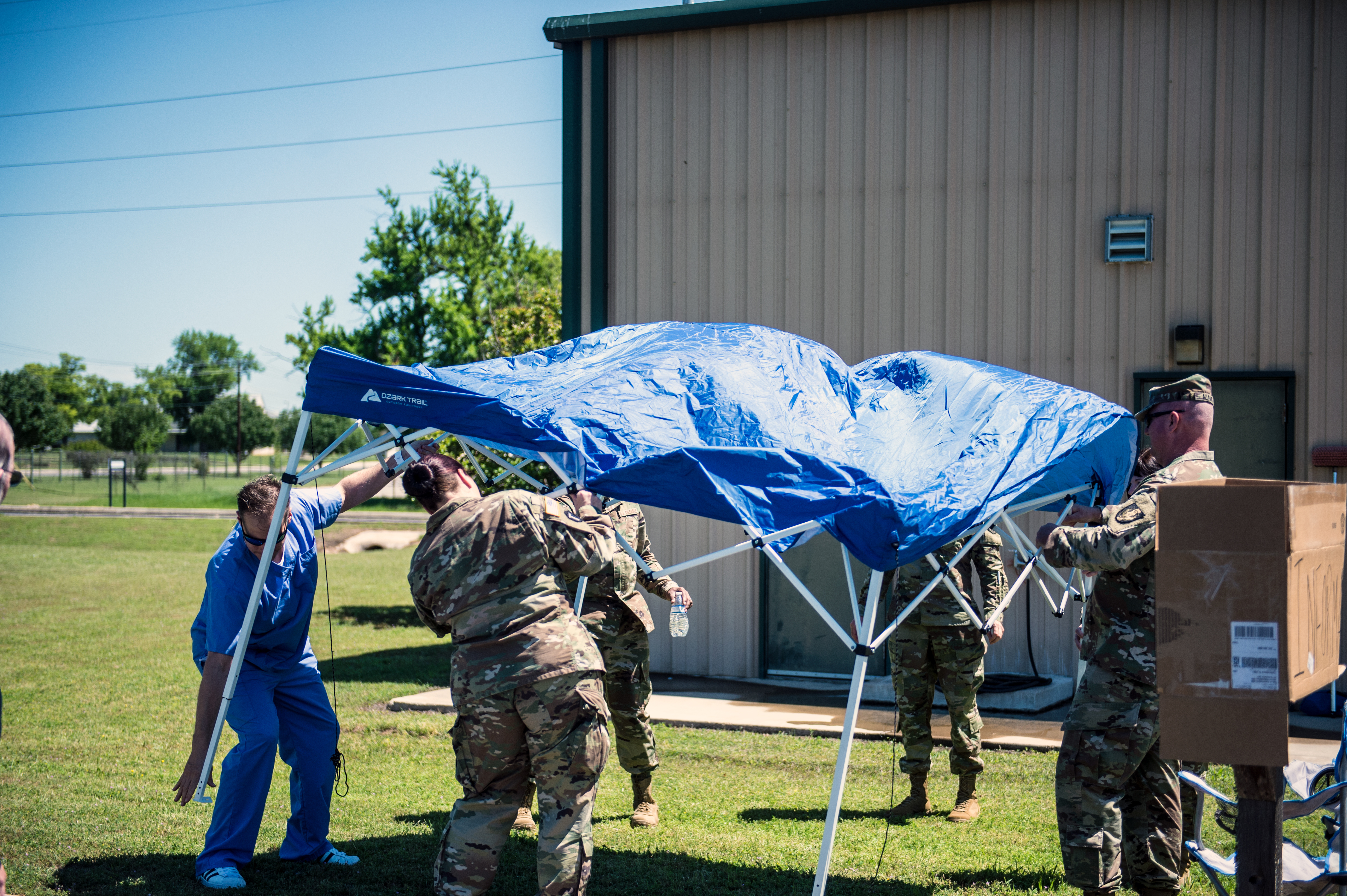 Texas Air and Army National Guard service members establish at a community based testing facility in Fredericksburg, Texas, April 19, 2020. The Texas Military Department, in tandem with state partners, has established community based testing facilities to provide drive-in COVID-19 screenings to communities not served by a county health department. These facilities will allow Texas to curb the spread of COVID-19. (U.S. Army National Guard photo by Charles E. Spirtos/Released)